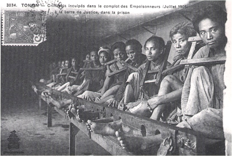 The Vietnamese insurgents captured in the poisoning in Hanoi in 1908.